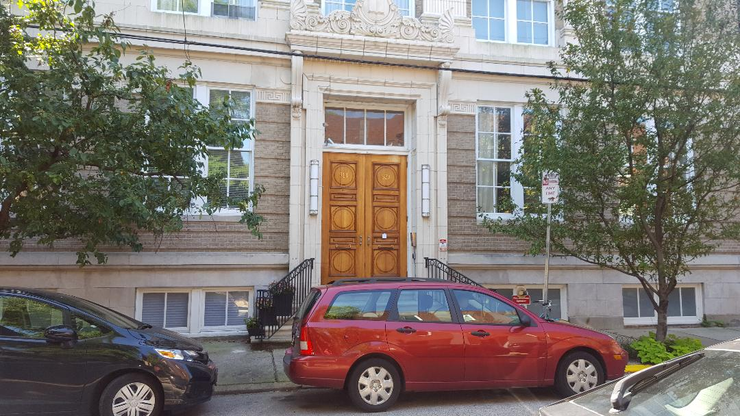 314-320 Catharine Street, Philadelphia, Pennsylvania on August 29, 2019. Building formerly Central Talmud Torah and location of Beth Jacob Day School between 1911-1963. Condominiums in 2019.